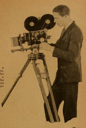 Publicity photo of Edward Cronjager operating a hand-grind camera of the 1920s Other information for an explanation of the copyright for information regarding public domain